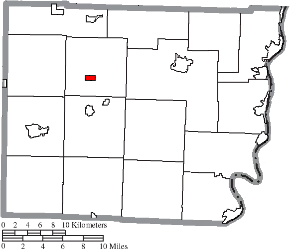 Map of the municipal and township boundaries of Belmont County, Ohio, United States, as of the 2000 census, with the location of the village of Morristown highlighted. Township borders are shown only in unincorporated areas in order to differentiate incorporated and unincorporated areas more clearly.